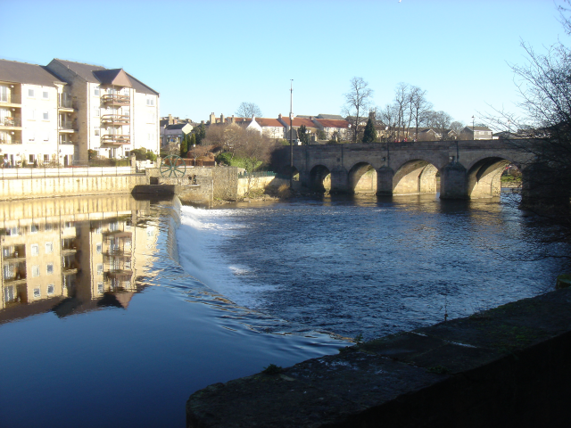 The River Wharfe at Wetherby.